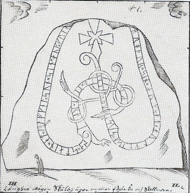 Runic stone U 100 in Skälby, Sollentuna. Drawing from 17 century.